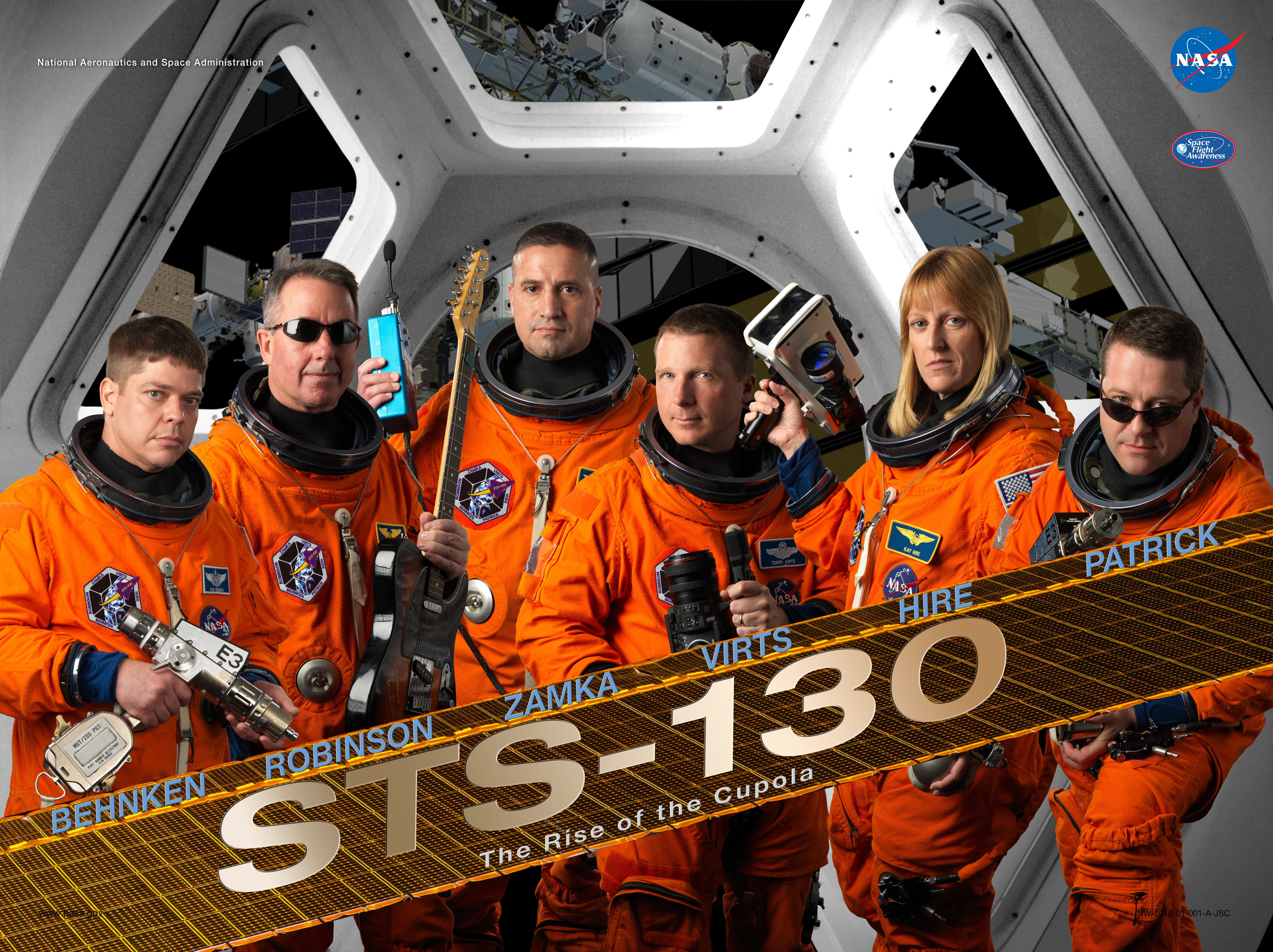 STS-130 Mission Poster